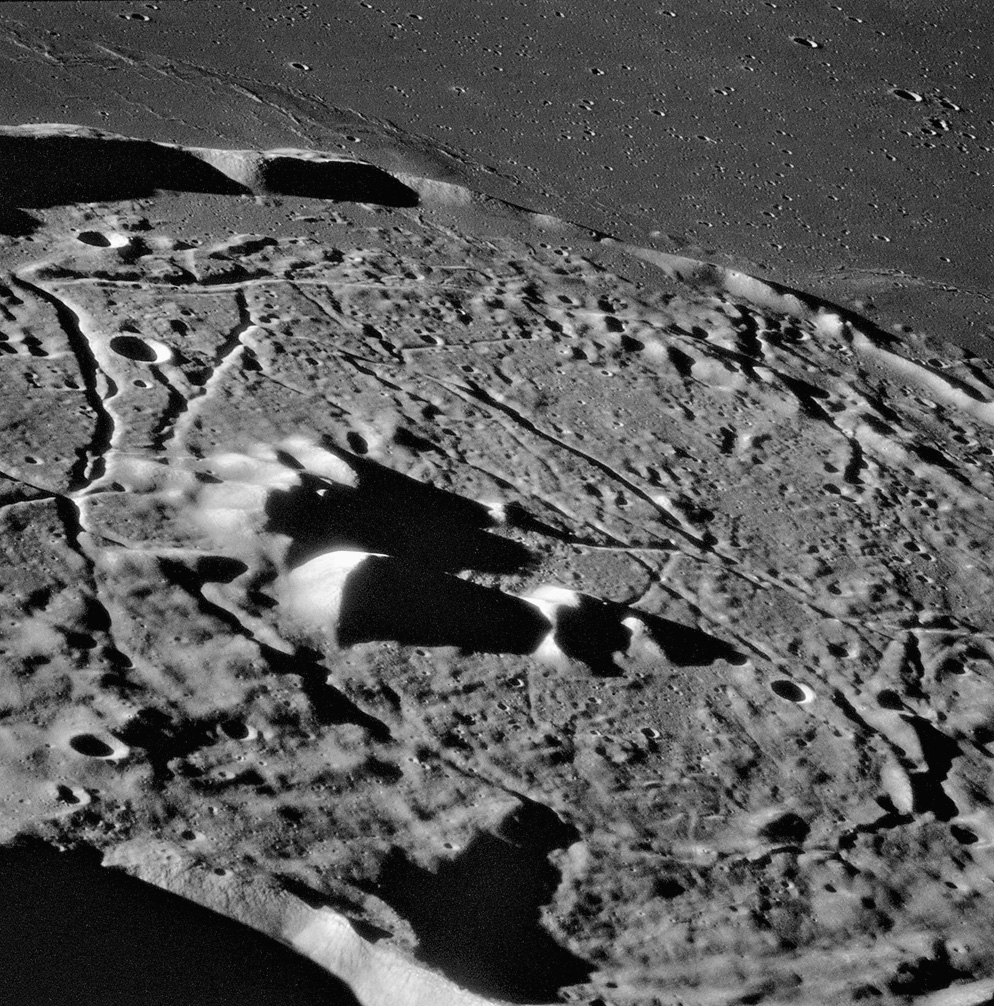 Moon crater Gassendi. Apollo 16 photo AS16-120-19295 .